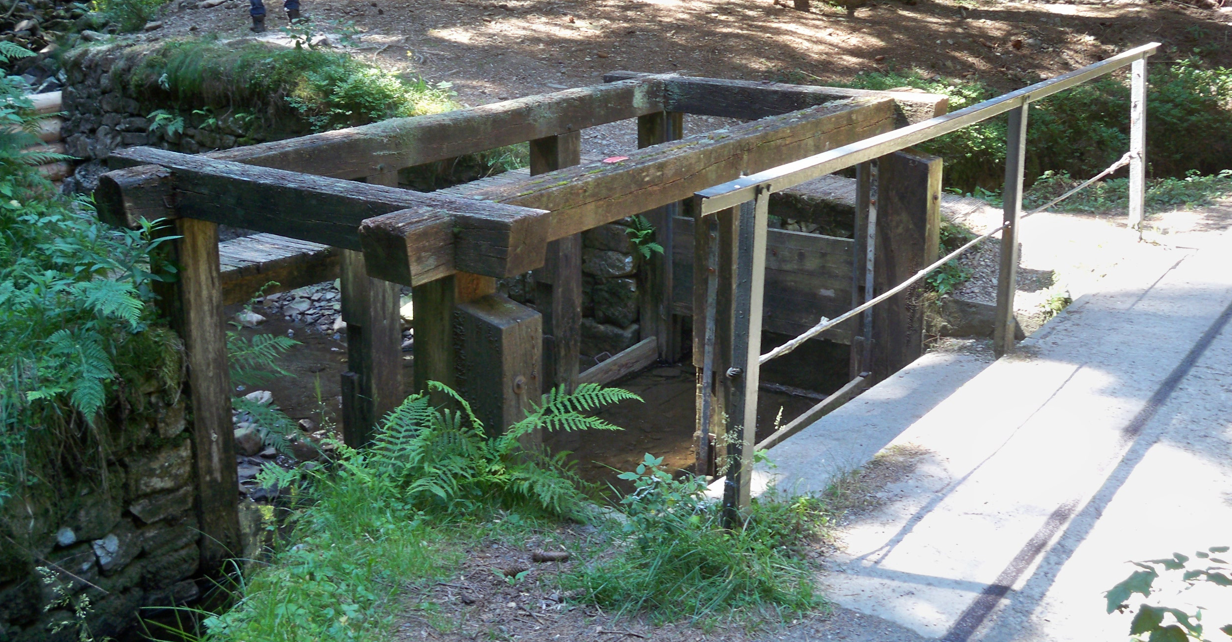 Altenau, Clausthal-Zellerfeld, Lower Saxony, crossing of Dammgraben (from bottom left to top right) and Altenau in the Tischlertal valley